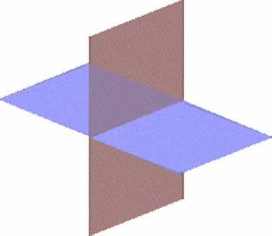 Two planes intersect9ng, forming a line